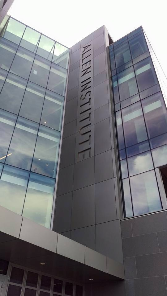 Entry to the Allen Institute, Seattle, WA.